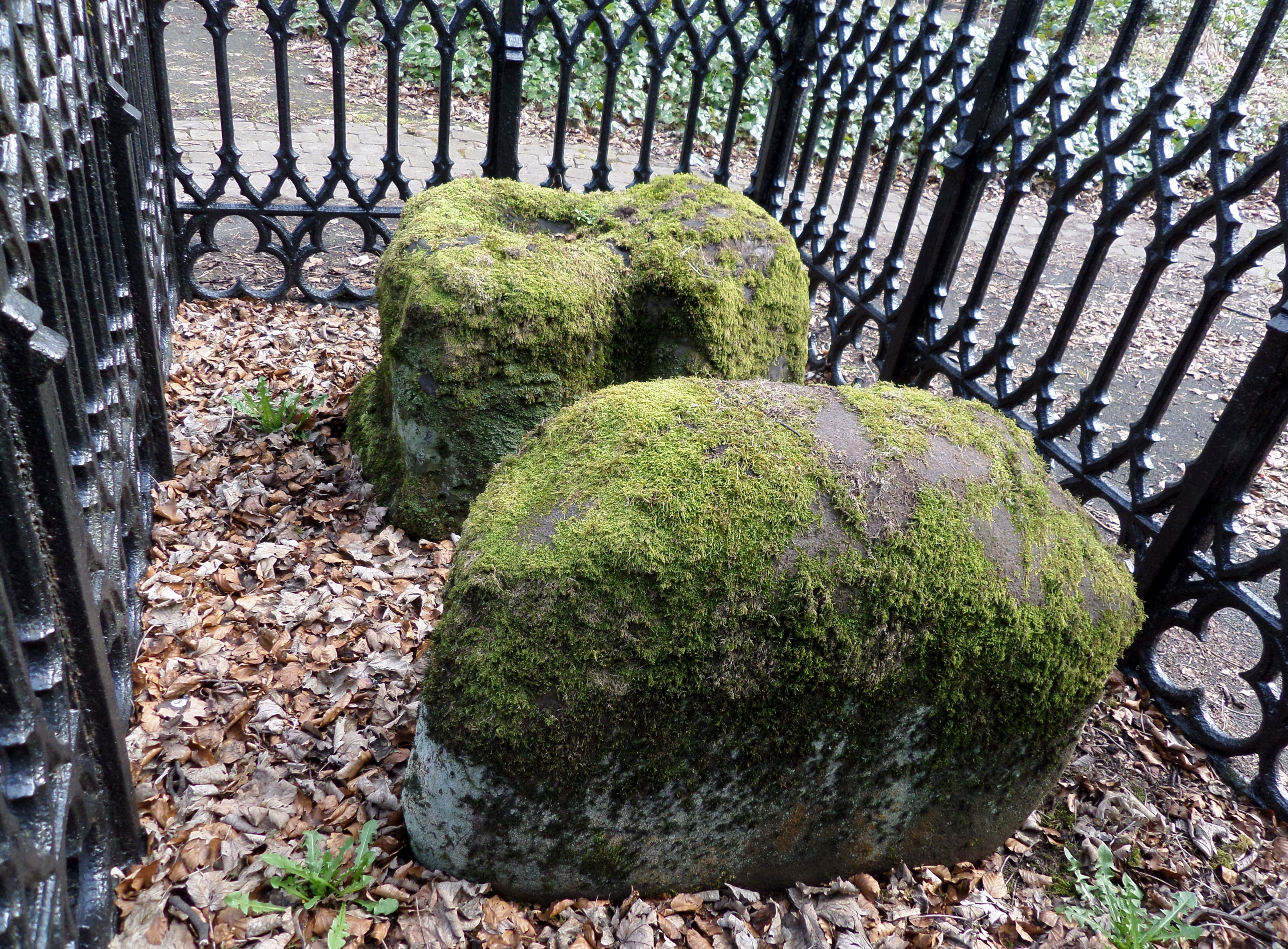 Argyll Stone and St Conval's Chariot, Normandy Hotel, Inchinnan, East Renfrewshire, Scotland.